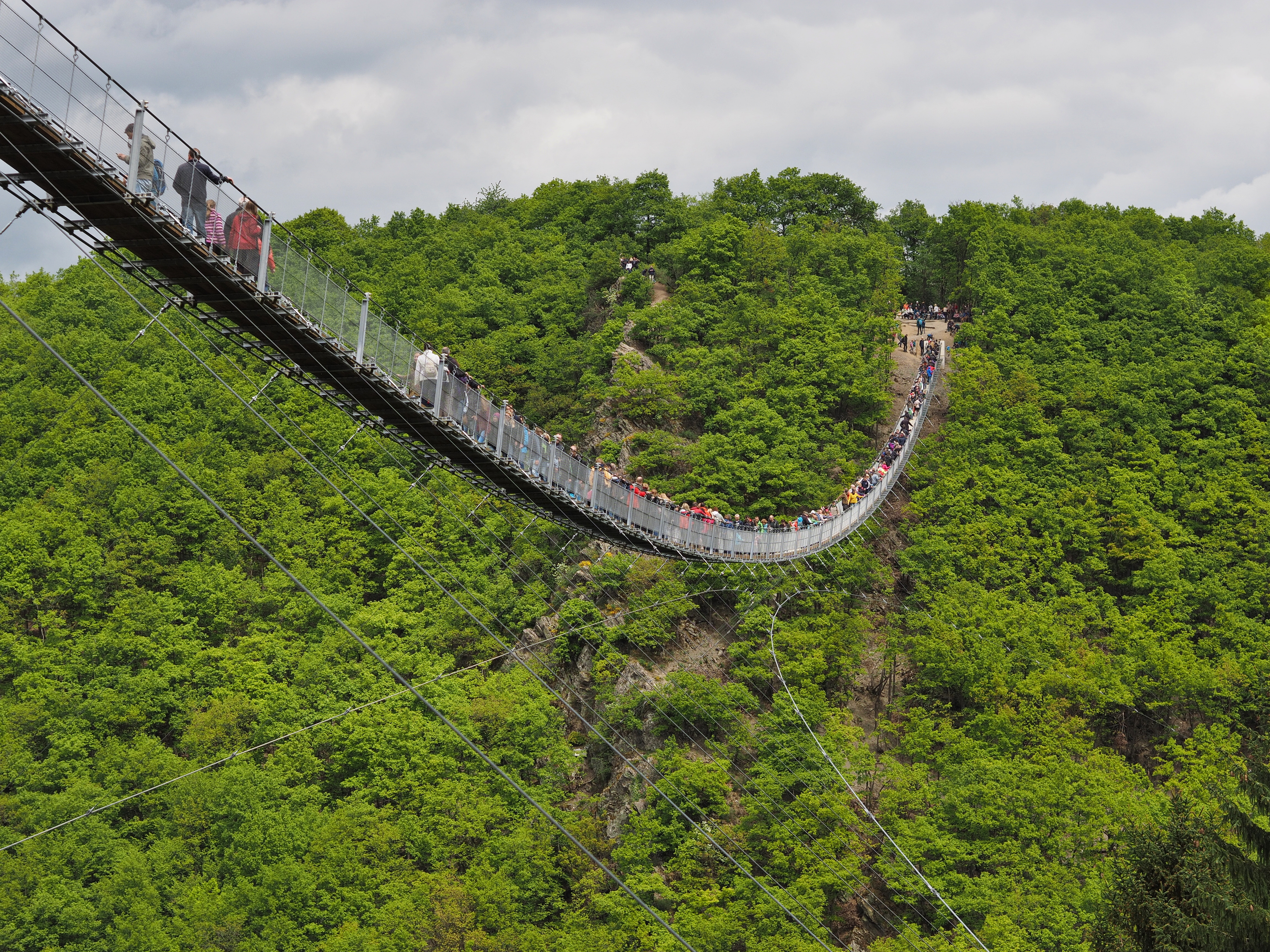 Geierlay bridge as seen from the track below